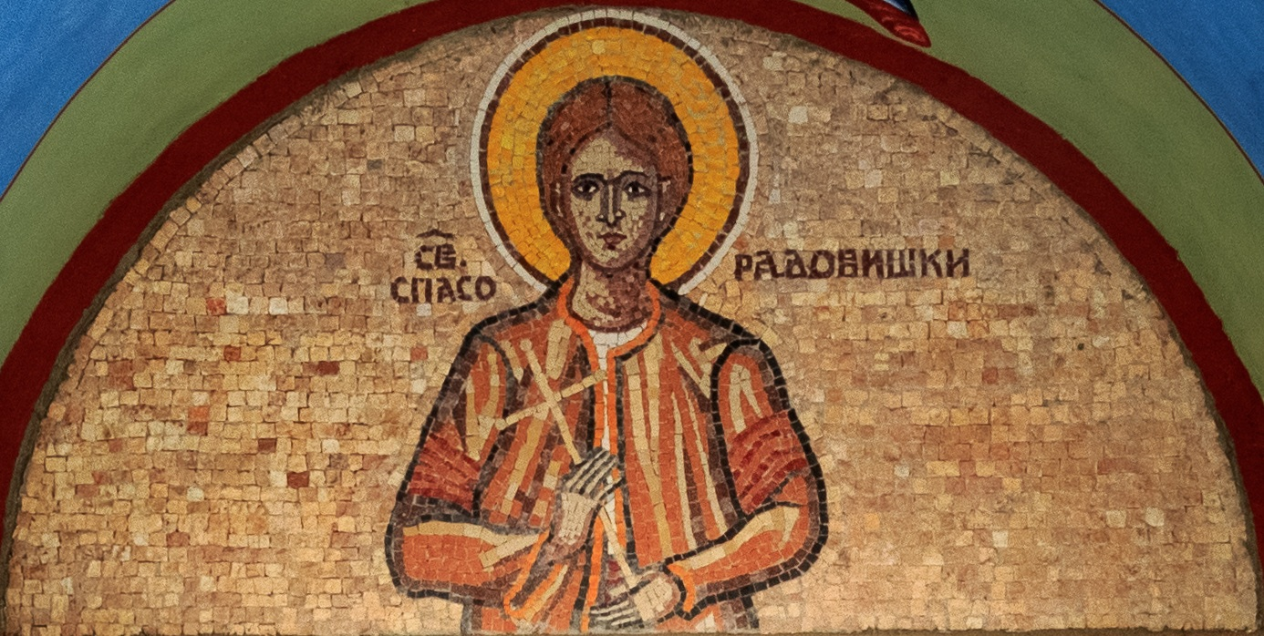 View of the church on the main square in Radoviš